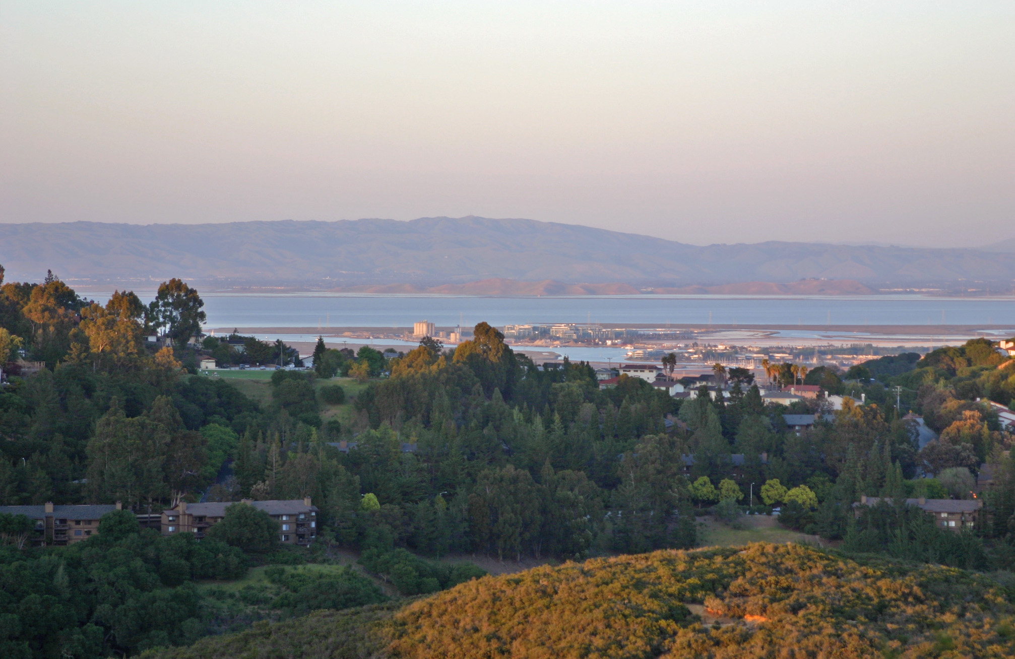 San Francisco Bay from Pulgas Ridge Open Space Preserve. Part of the Midpeninsula Regional Open Space District system.